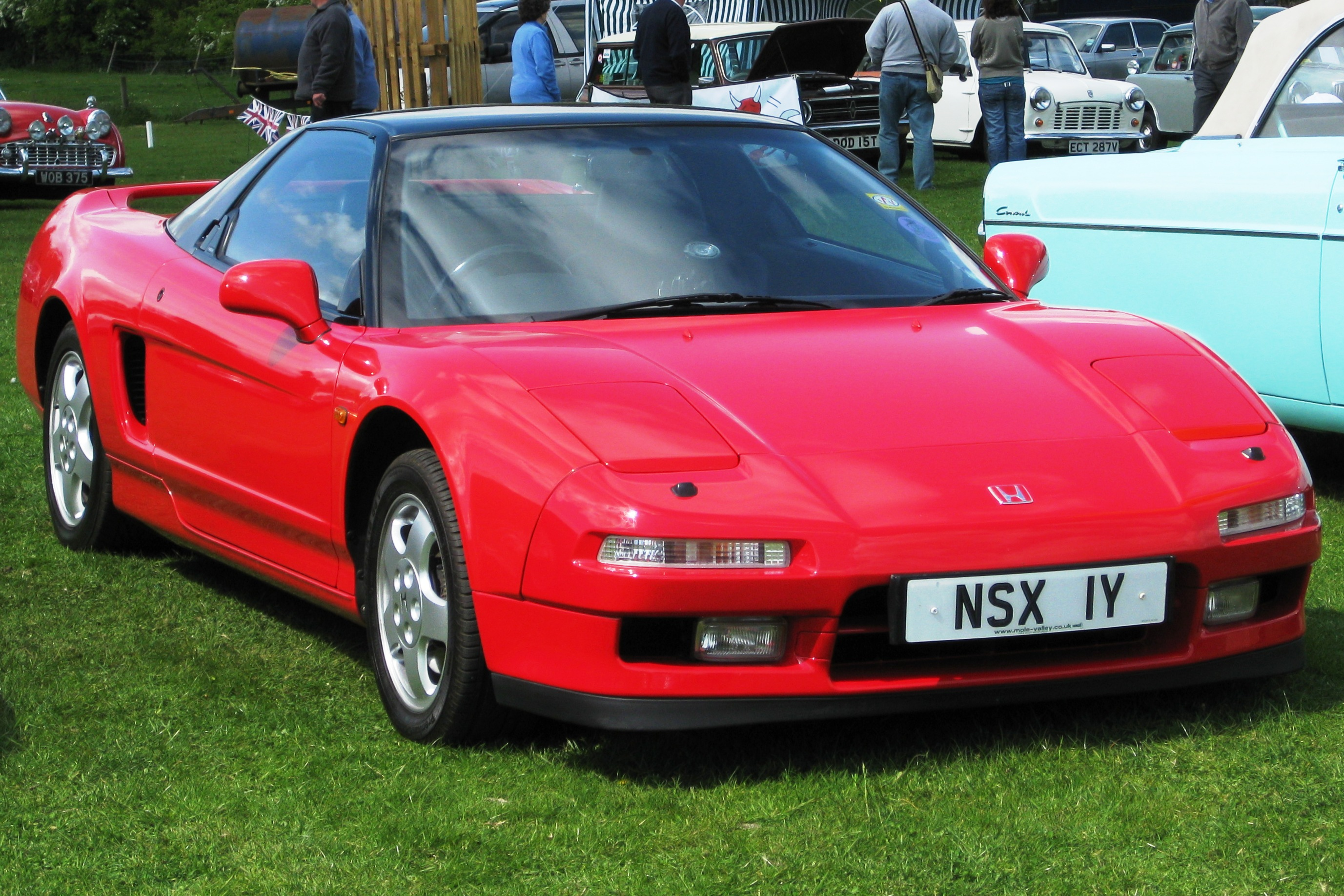 Honda NSX with appropriate license plate